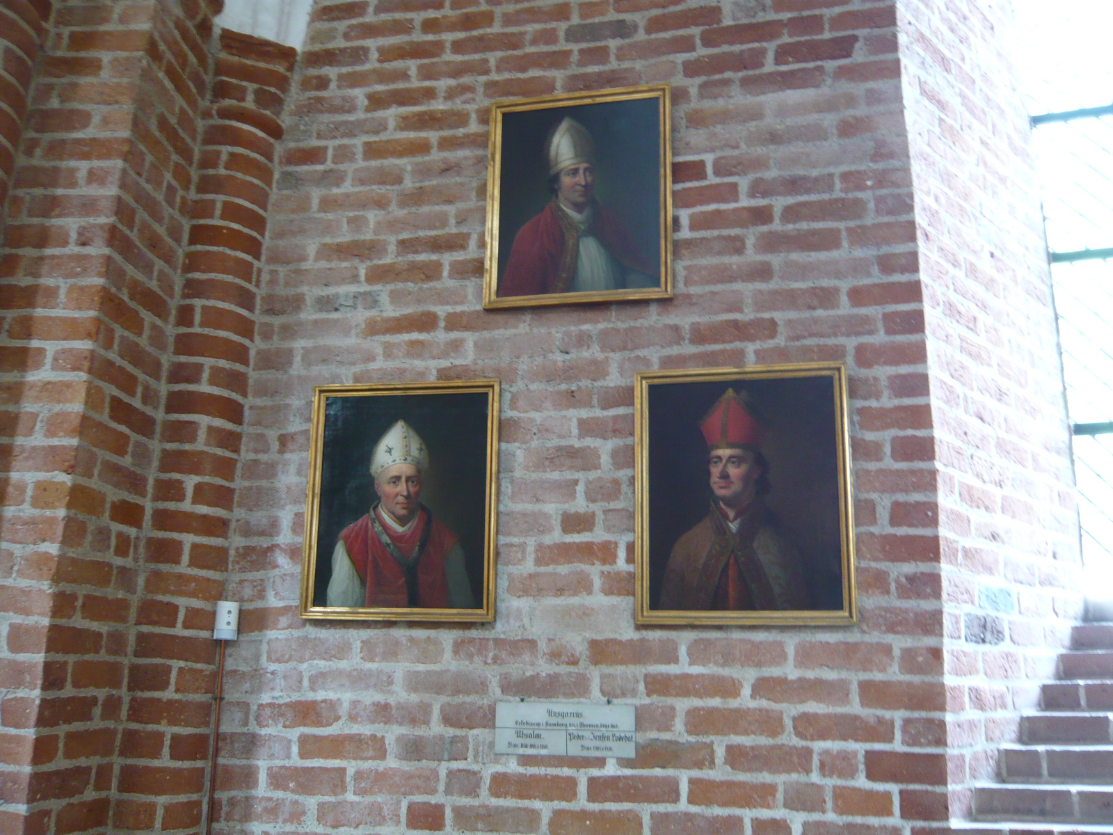 Bishop's portraits hanging in the ambulatory. On the left is a portrait of Absalon (1128-1201, Bishop of Roskilde 1158-1191), and on the right is a portrait of Peder Jensen Lodehat (d. 1416, Bishop of Roskilde 1395-1416). At the top is a portraint of the monk Ansgar, who helped spread Christianity in Denmark around 848.